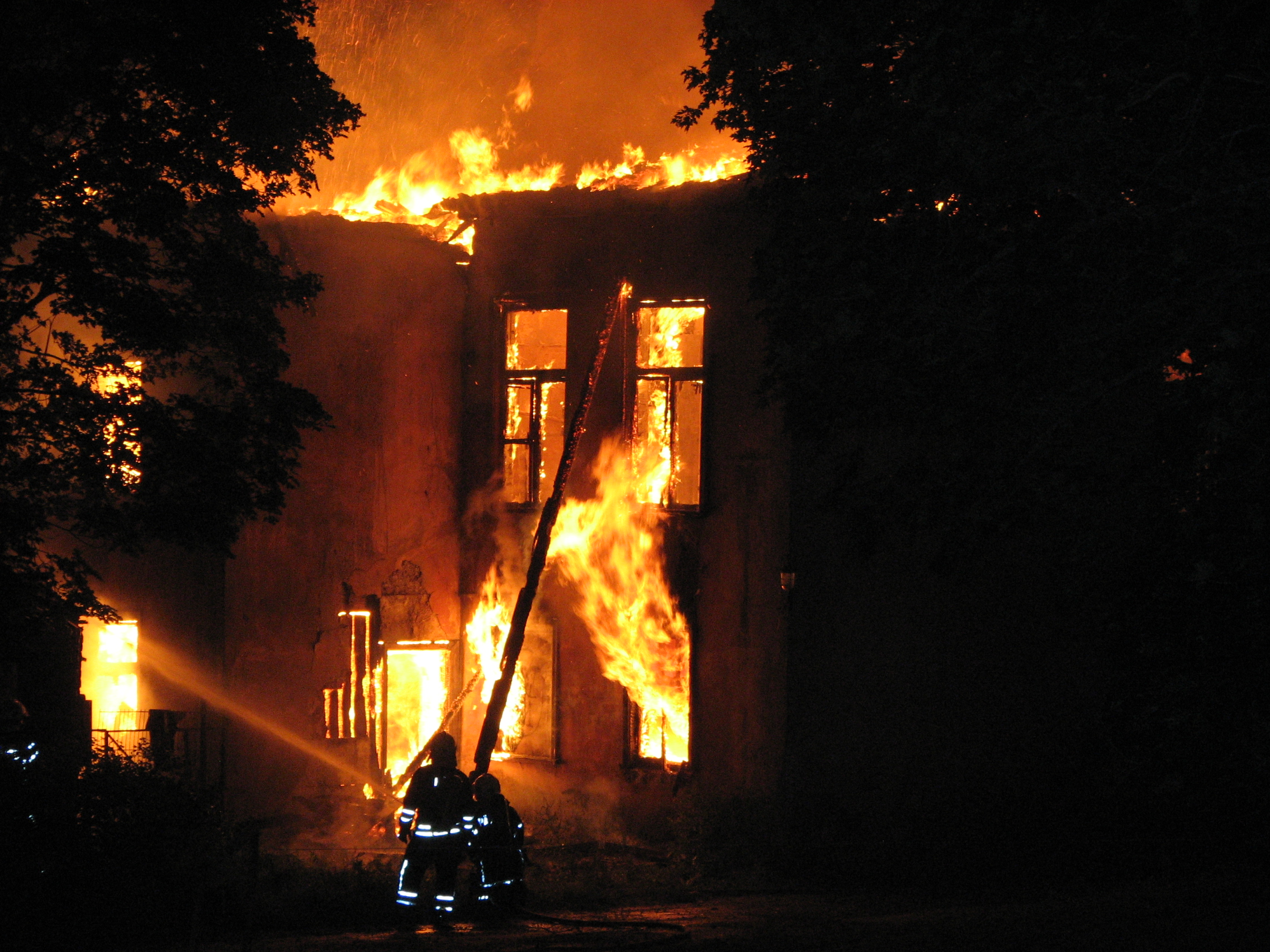 Firefighters fighting with fire in Magasini street in Tallinn, Estonia.